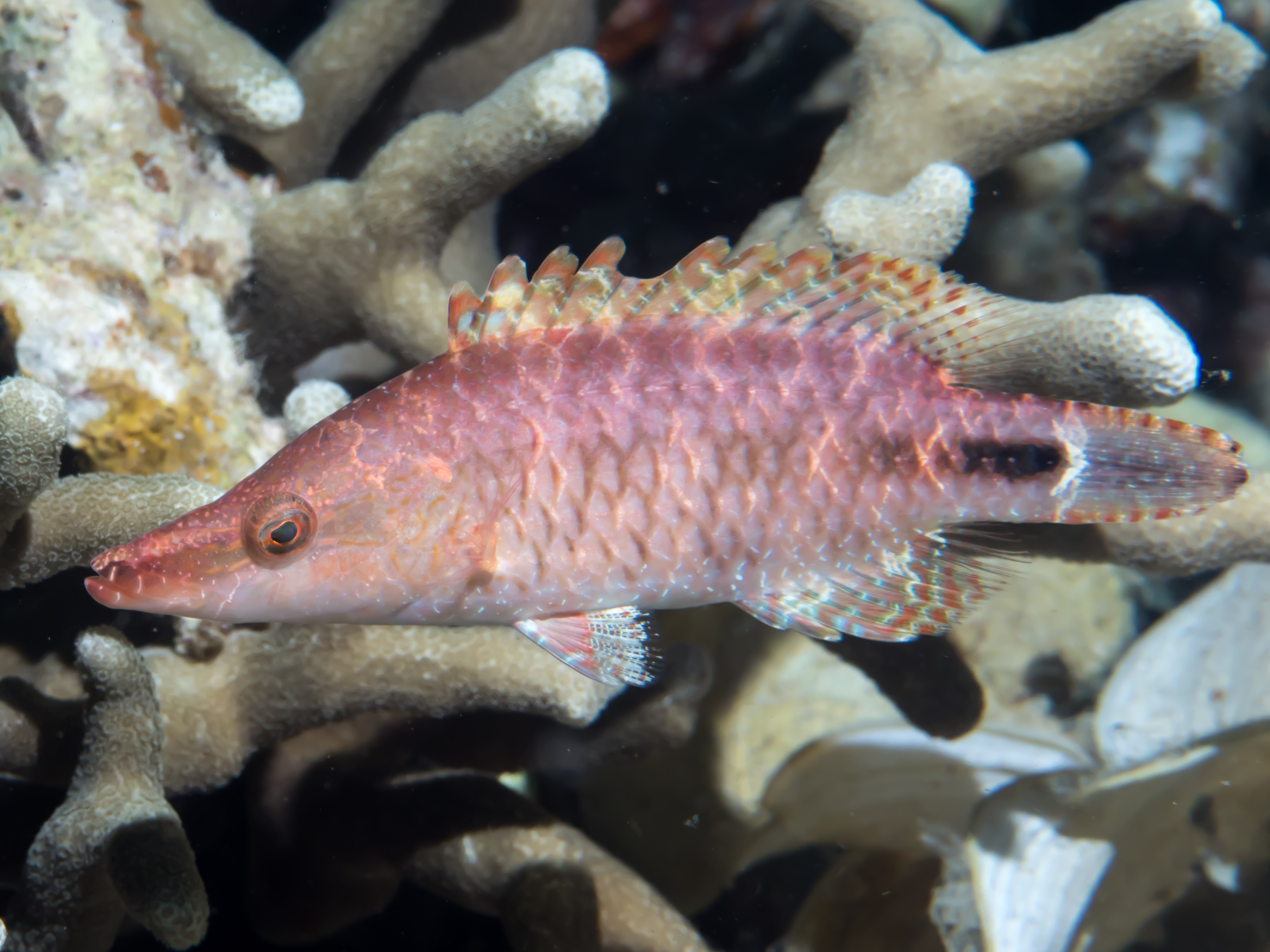 Romblon, Philippines - Celebes wrasse (Oxycheilinus celebicus)